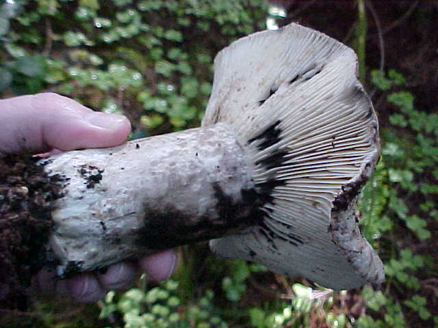 Observation: Russula albonigra (Krombh.) Fr. (12806)